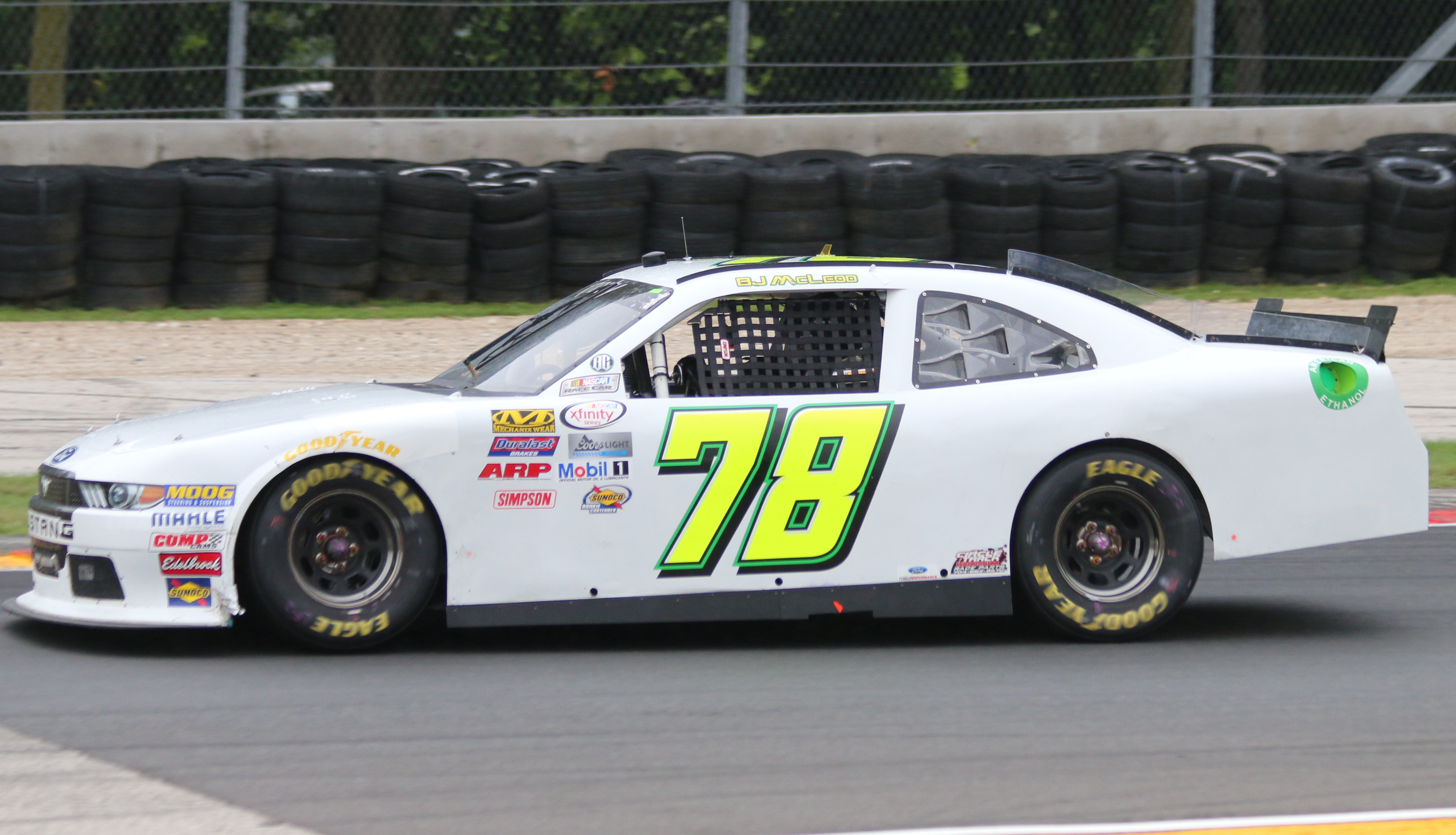 The Ford Mustang of BJ McLeod at the NASCAR Xfinity Series Road America 180.